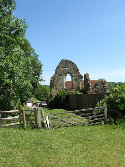 Ruins of Crowhurst Manor House Built in the late 13th century the remains now form part of the back garden of Court Lodge. The row of trees on the left mark the boundary of St George's church yard.